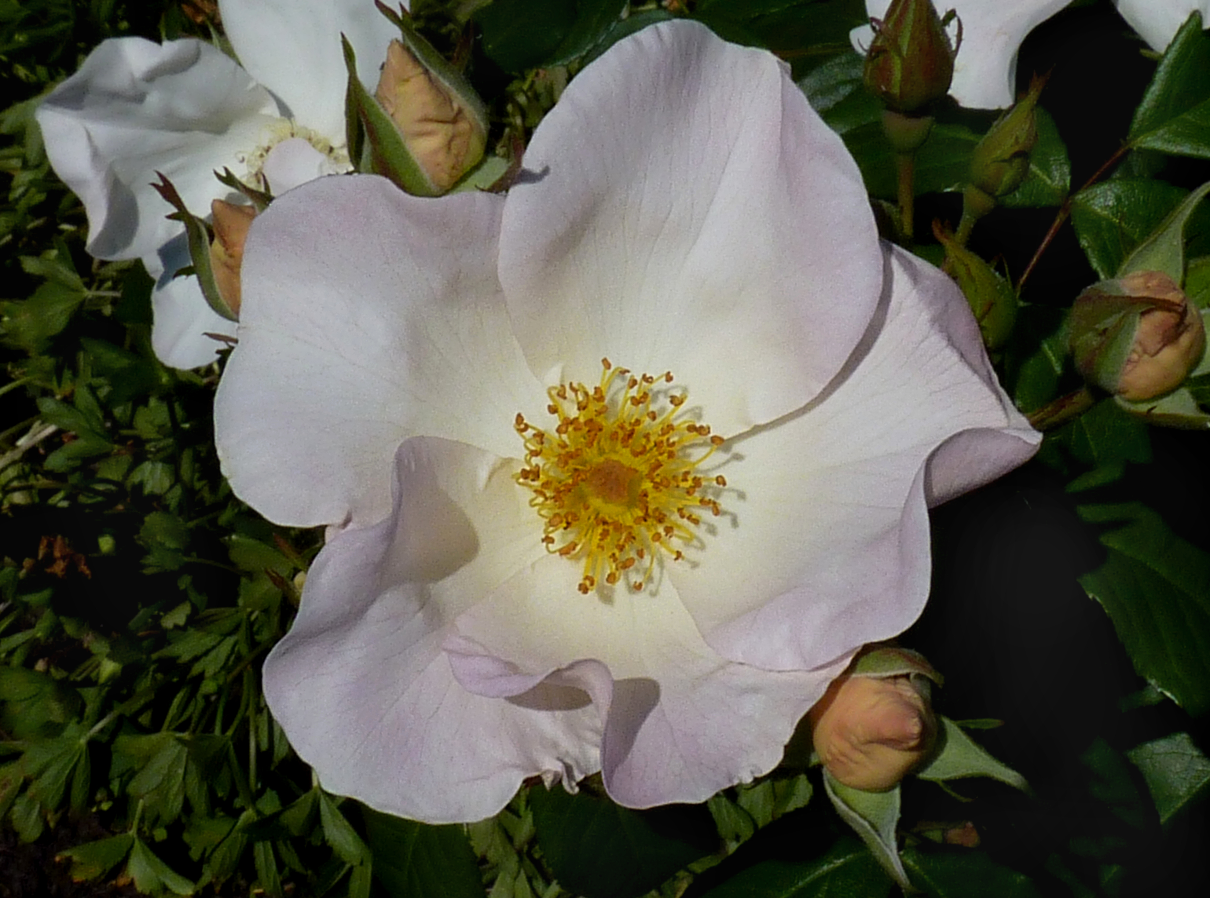 Rosa 'Sally Holmes' (Holmes, 1976), in the international rose garden of Kortrijk, Belgium.